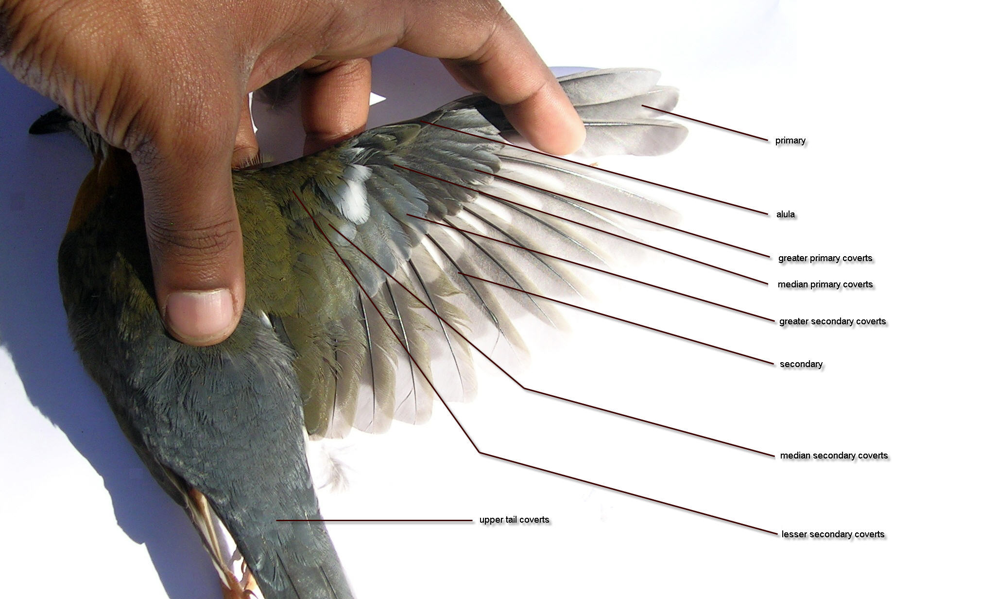 Upper wing of Zoothera citrina cyanotus (specimen from Wayanad, Kerala) - source image - File:Zoothera_citrina_upper_wing.jpg